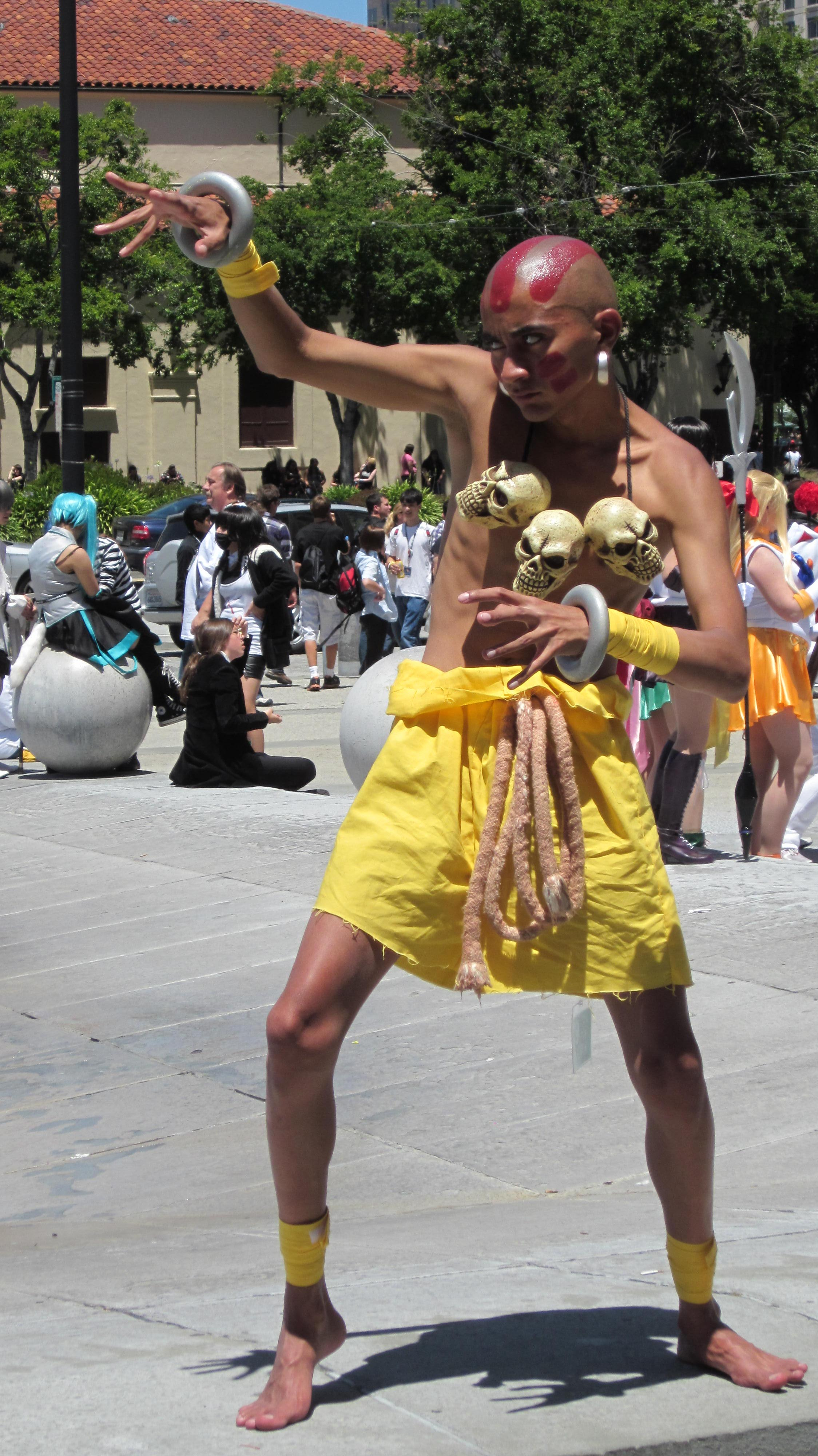 A cosplayer portraying Dhalsim from Street Fighter at FanimeCon 2010 in San Jose, California.